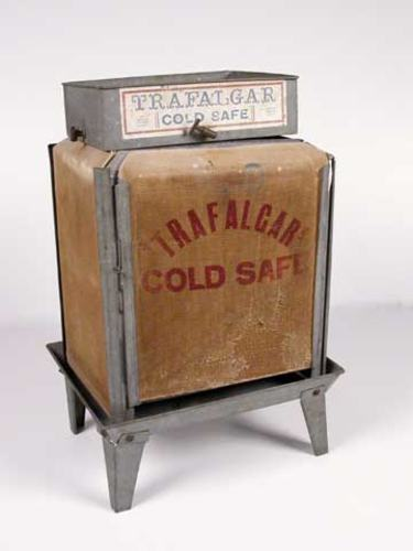 The Coolgardie safe is a low-tech food storage unit for cooling and prolonging the life of whatever edibles were kept in it. It applies the basic principle of heat transfer which occurs during evaporation of water. It was named after the place where it was invented — the small mining town of Coolgardie, Western Australia, near Kalgoorlie-Boulder.